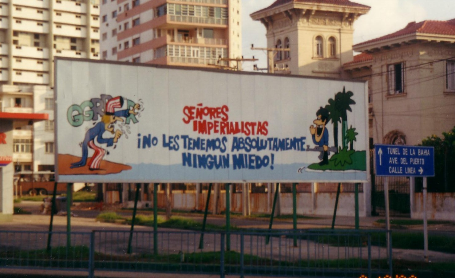 Sign in front of the American interests office, Havana. Cuban addresses a threatening Uncle Sam, "Mr. Imperialists, we have absolutely no fear."